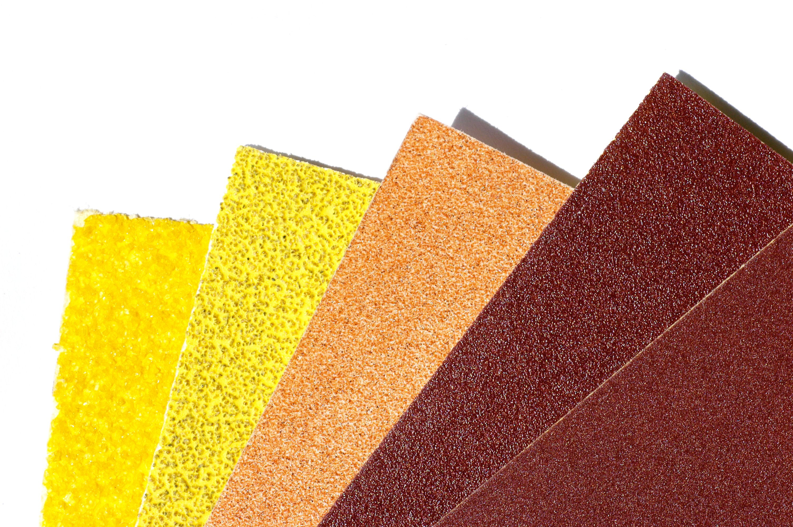 Sandpaper in different grits (40, 80, 150, 240, 600)